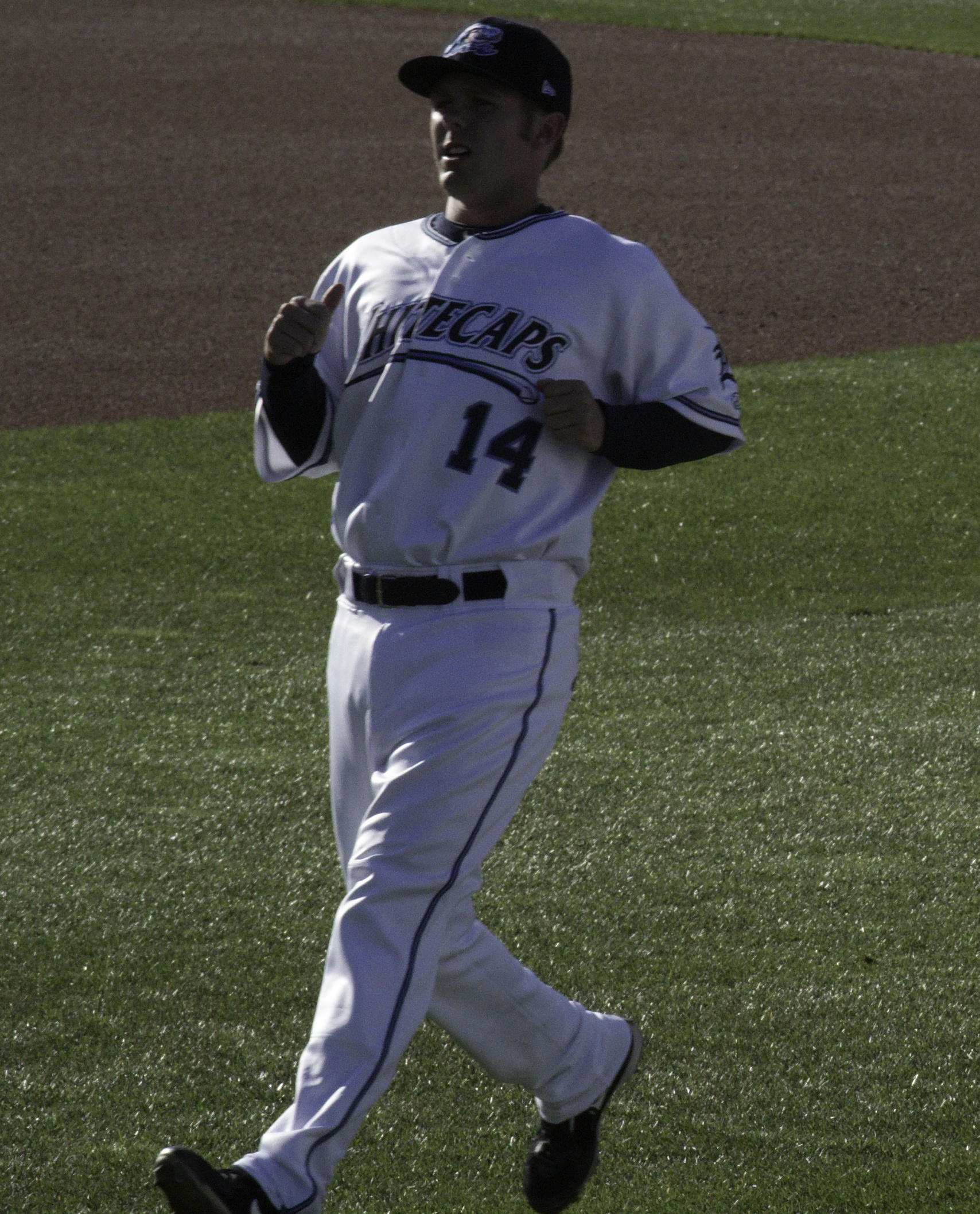 Colin Kaline (left) and Dean Green with the West Michigan Whitecaps at Fifth Third Ballpark in Comstock Park, Michigan in 2012